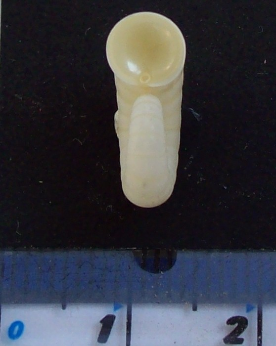 shell of Spirula spirula. Dorsal view. The siphuncule (in ventral position) and the last septum of the phagmocone are visible.